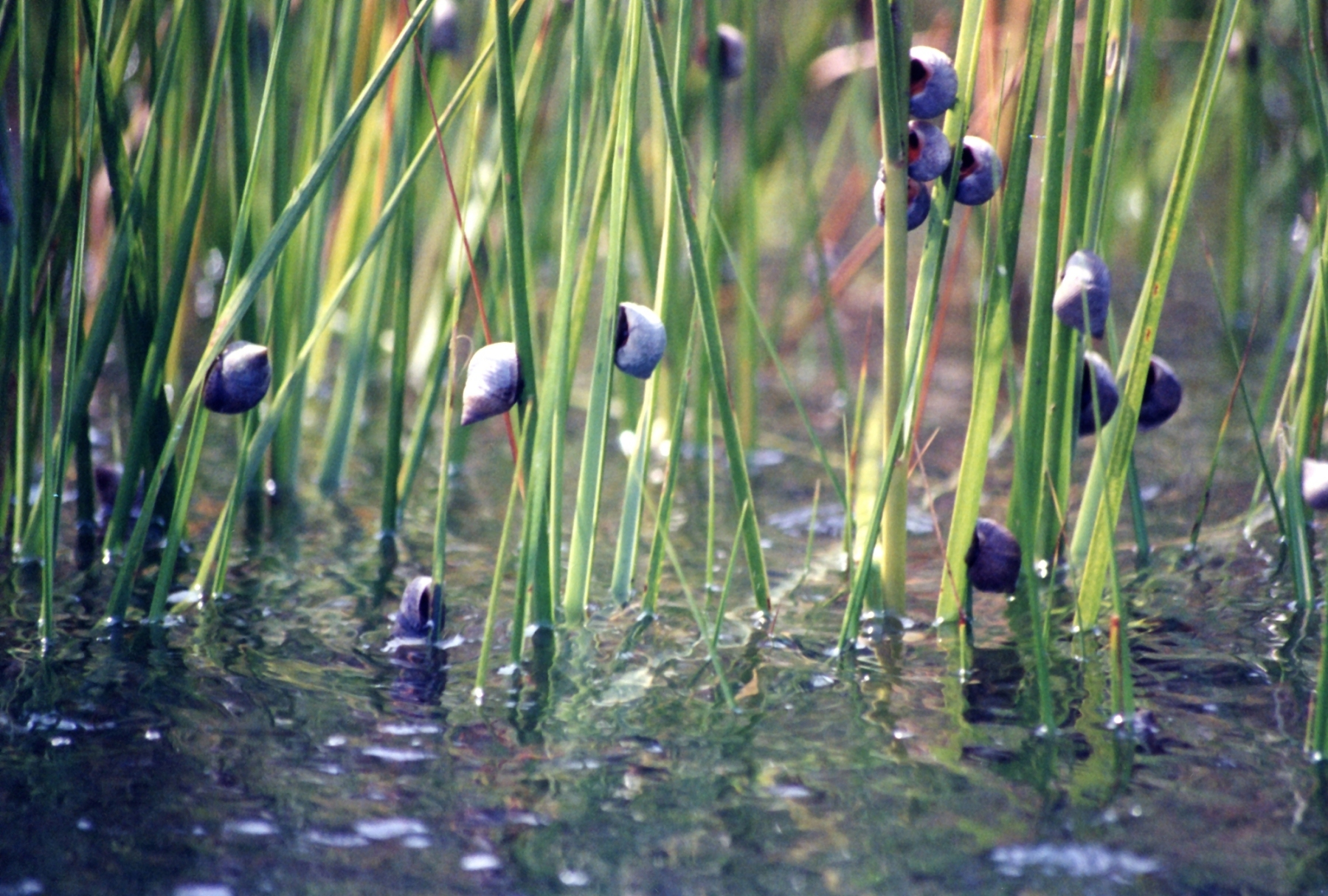 Marsh periwinkle, Littoraria irrorata (Say, 1822) , on marsh grass. Maryland, Chesapeake Bay.